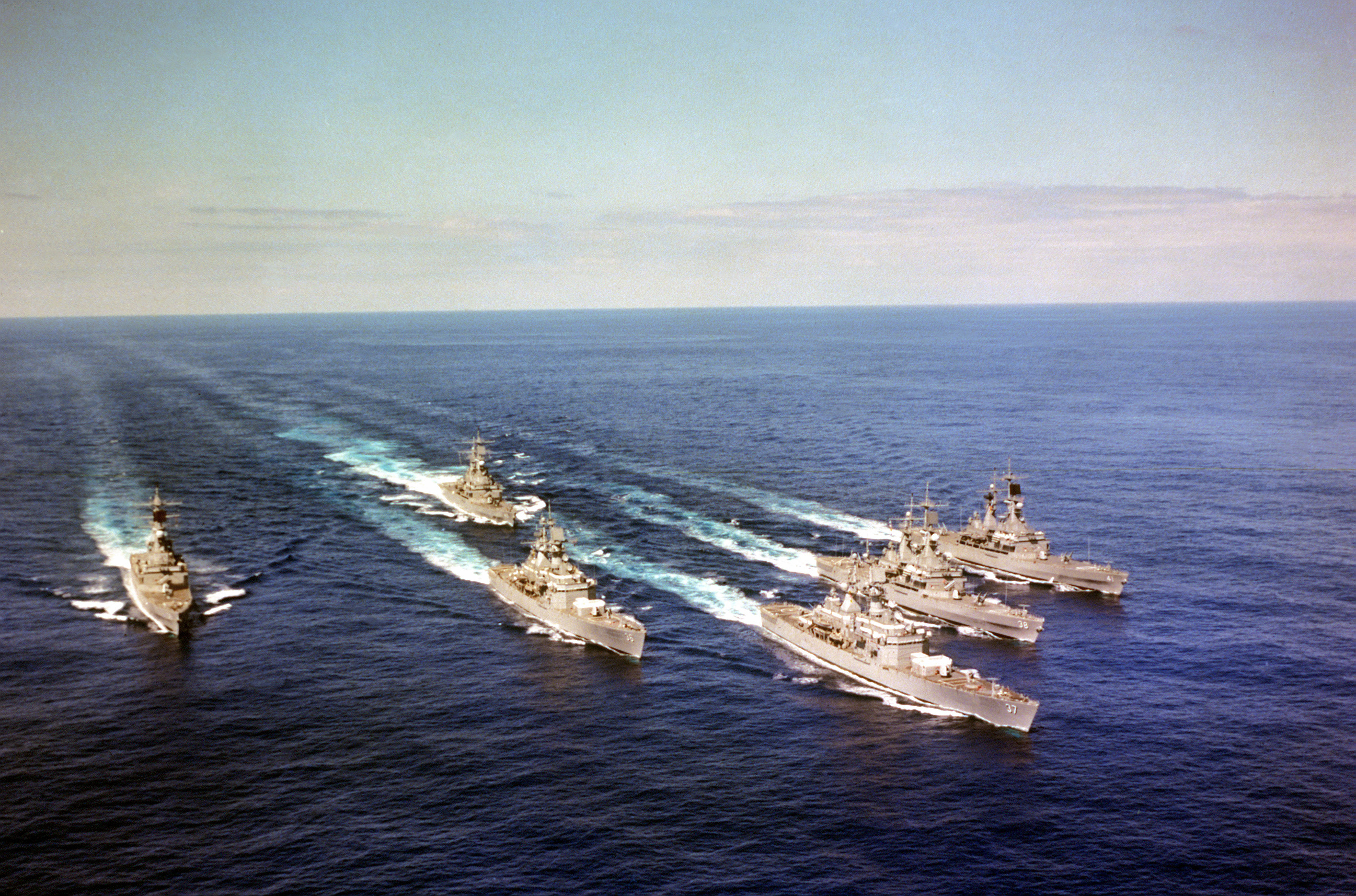 Aerial view of six nuclear-powered U.S. Navy guided missile cruisers underway in formation during exercise "READEX 1-81". The ships are, from left to right, front row: USS California (CGN-36), USS South Carolina (CGN-37), USS Virginia (CGN-38); second row, USS Texas (CGN-39), USS Mississippi (CGN-40) and USS Arkansas (CGN-41).